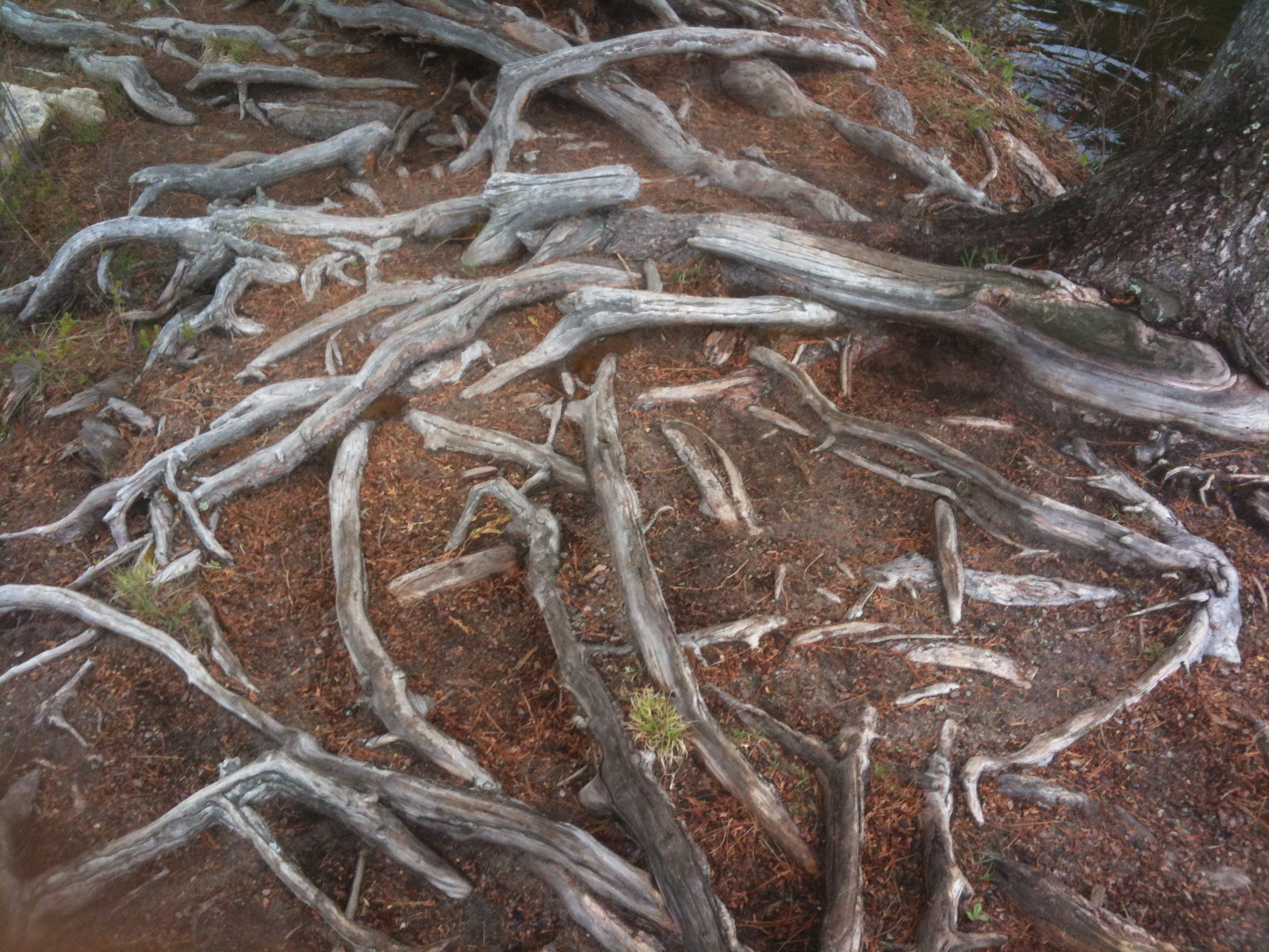 Taken at Algonquin Park, Canada. A spread of roots are running under the historic lookout